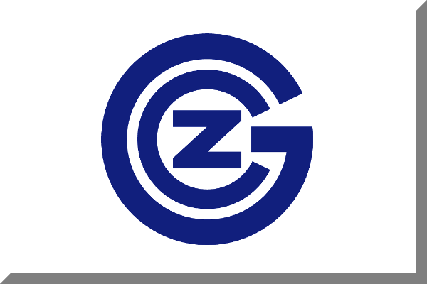 Fantasy football flag of the Swiss football club Grasshopper